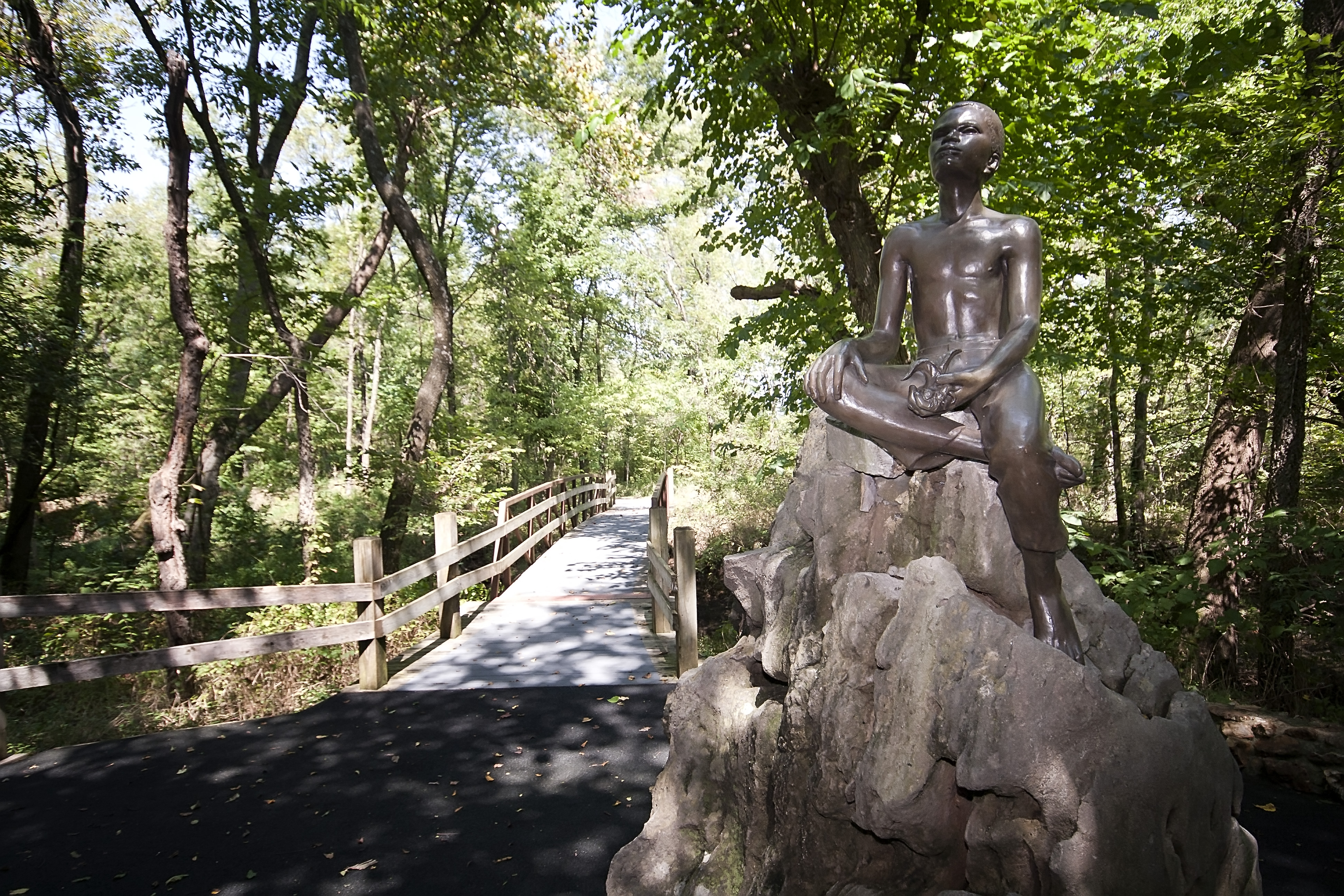 The Boy Carver statue along the one-mile, self-guiding trail loop.